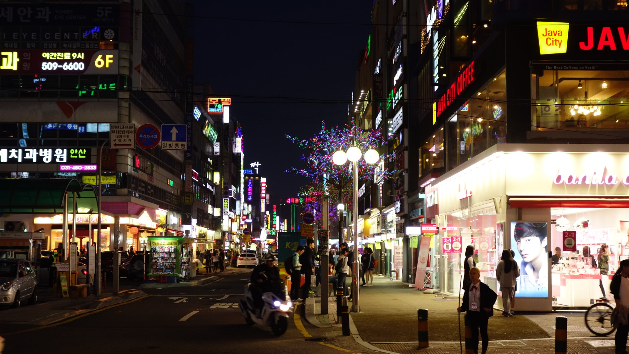 Downtown in Ansan, South Korea, at night